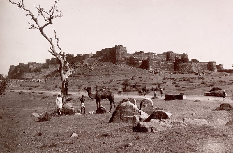 (Photograph of Jhansi Fort taken in 1882 by Lala Deen Dayal, from the Lee-Warner Collection: 'Scenes and Sculptures of Central India, Photographed by Lala Deen Diyal, Indore.' The East India Company assumed control of the fort after the death of Raja Ganga)